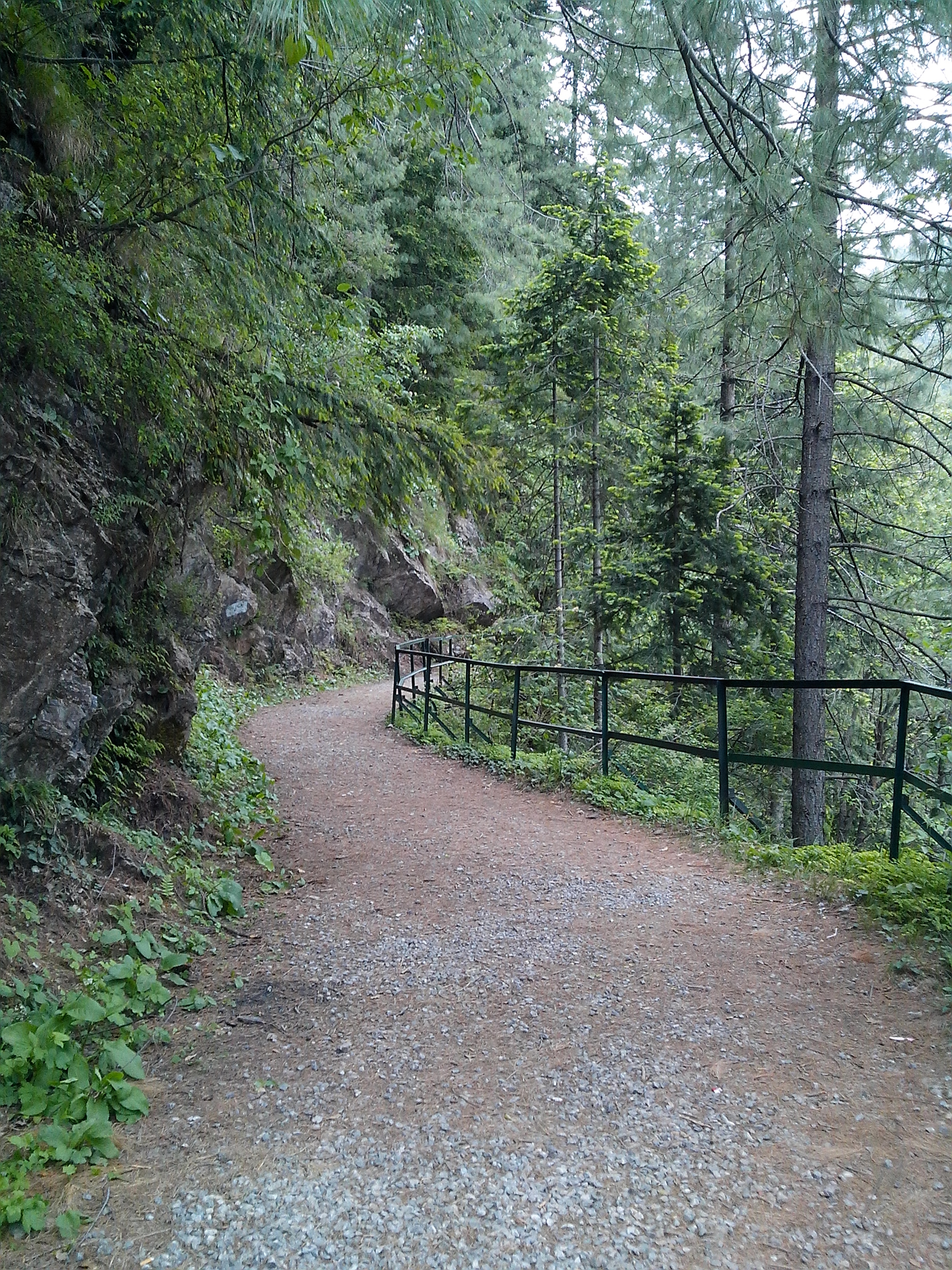 Ayubia - Donga Gali dandee